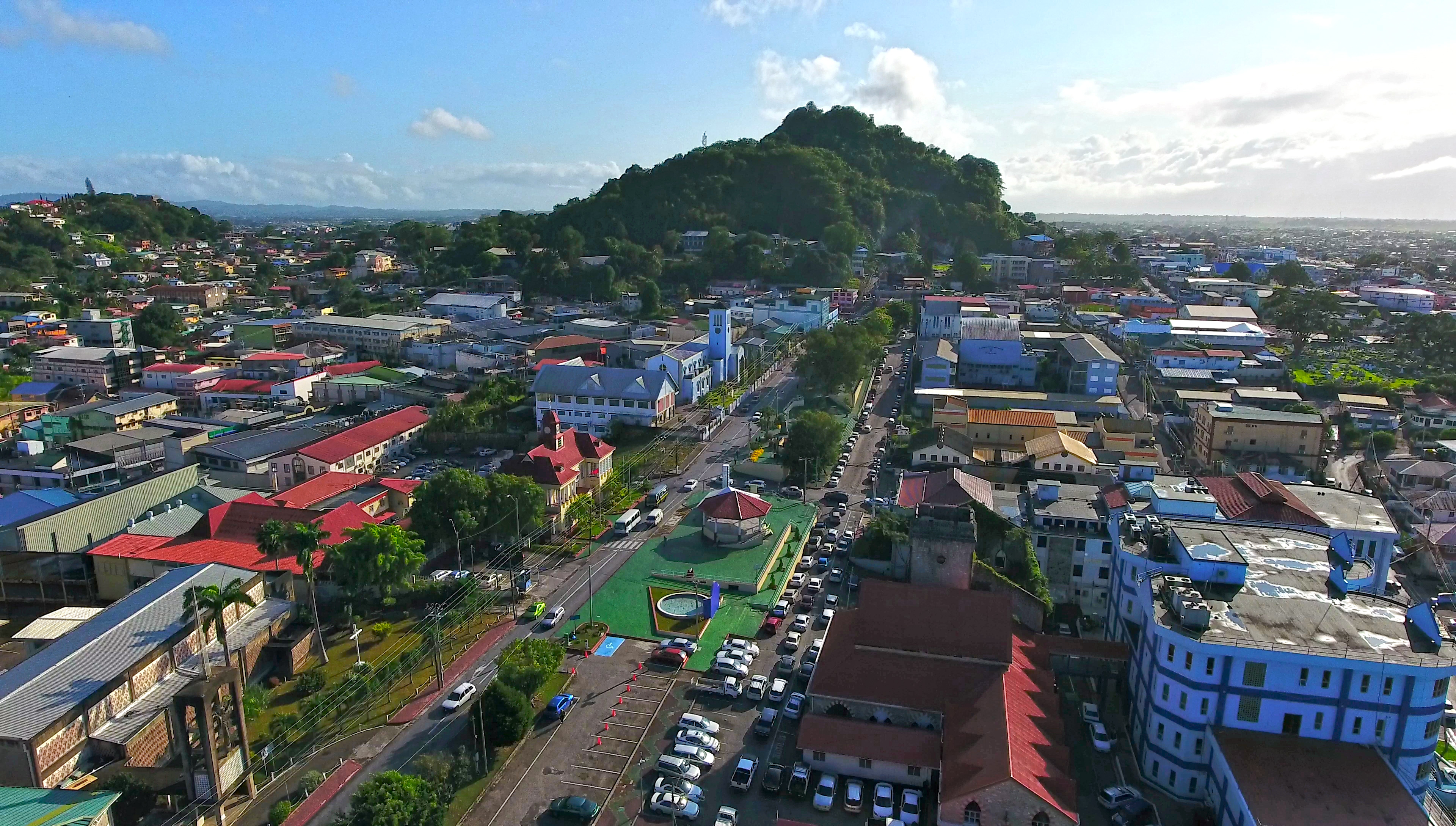 Harris Promenade, San Fernando, Trinidad and Tobago. To the left: St. Paul's Church, town hall, Cathedral of Our Lady of Perpetual Help. To the right: Police station. In the background: San Fernando Hill. Photo taken as part of the Southern Trinidad Aerial Photo Project, a small project sponsored by WMDE. Drone used: DJI Phantom 4. Snapshot taken from video footage via VLC.